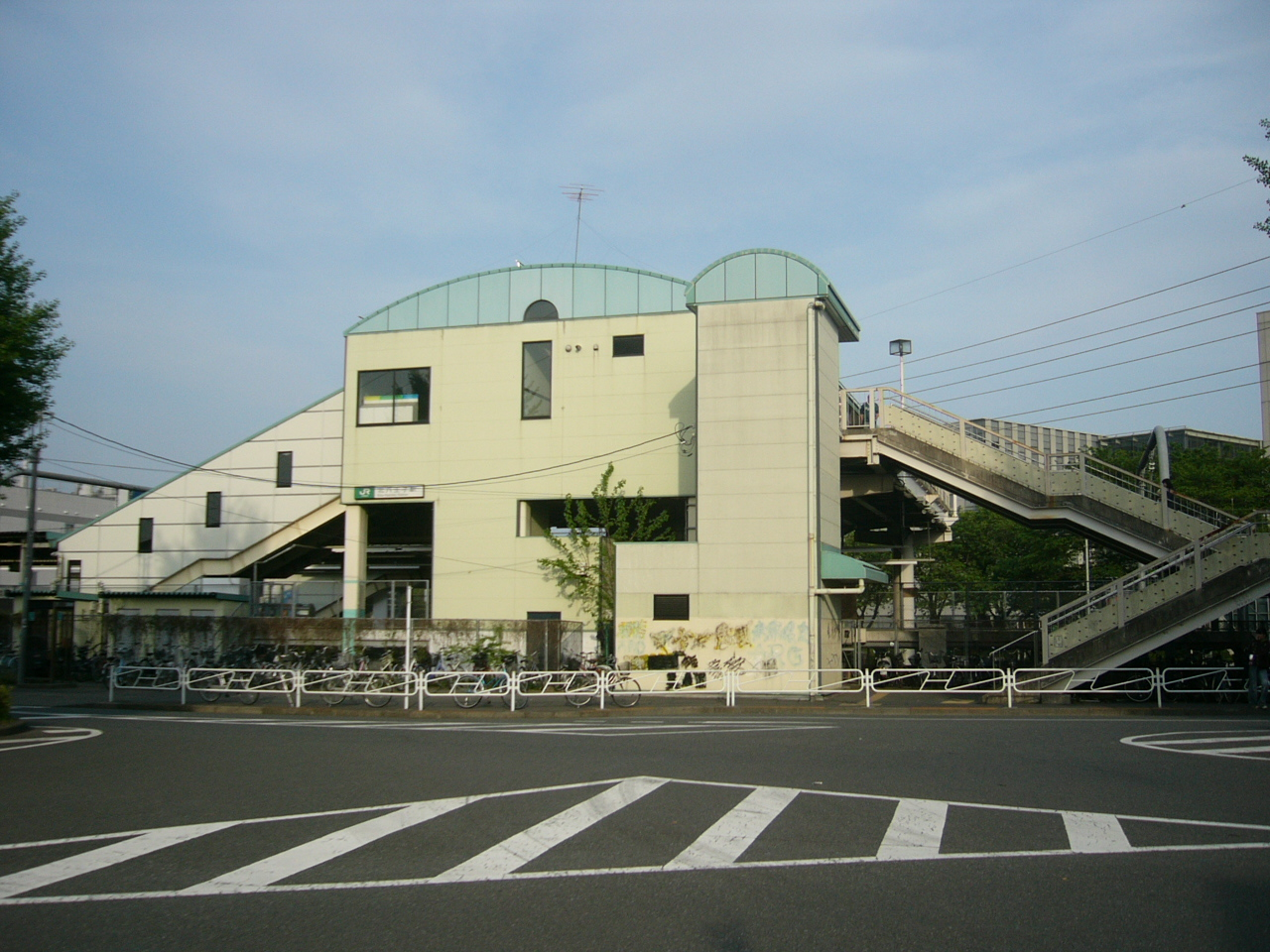 Kita-Hachioji Station (West Entrance)